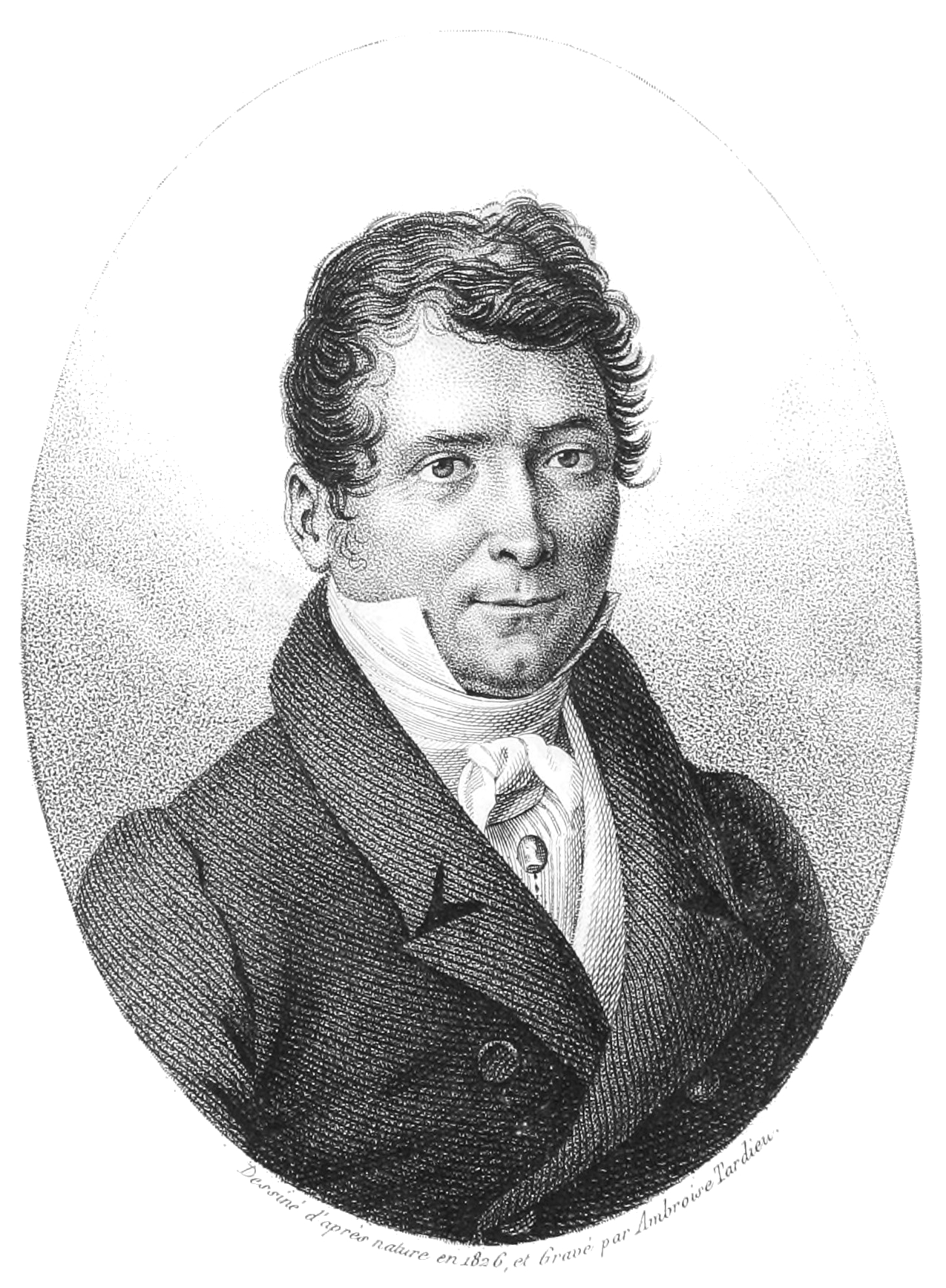 French naturalist Antoine Risso (1777-1845)